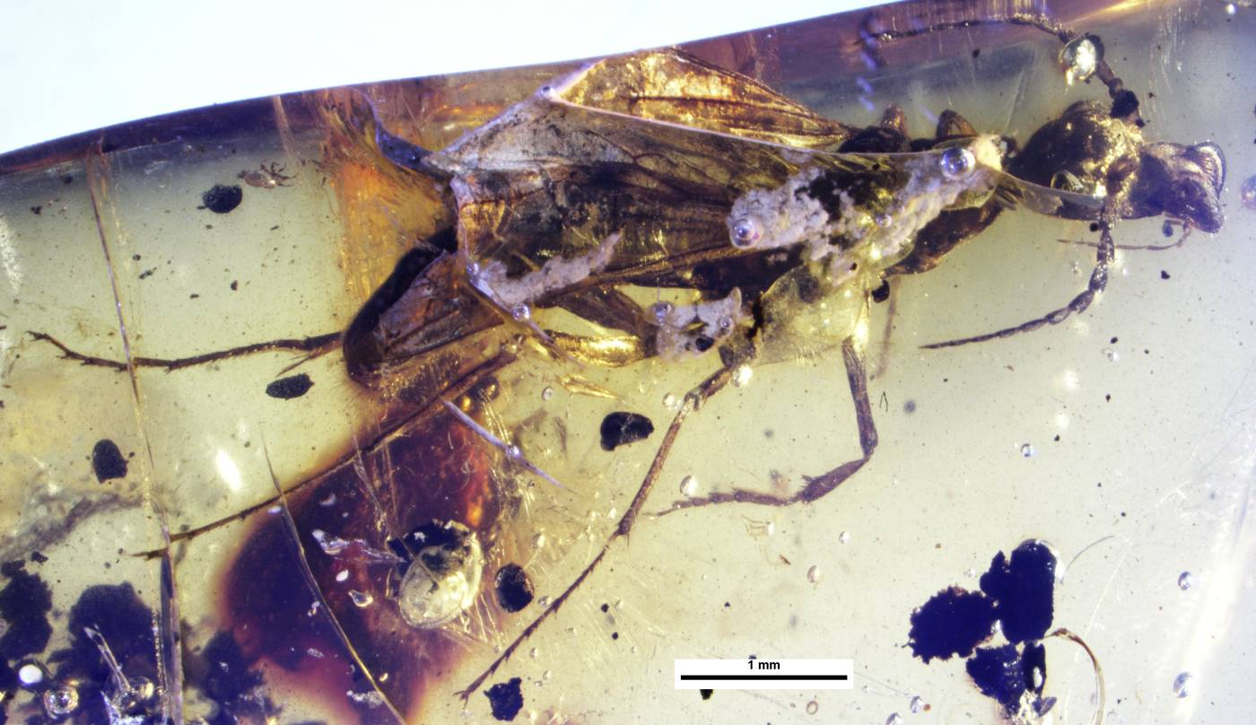 Right profile view of the Camelomecia janovitzi holotype queen. Burmese amber, Earliest Cenomanian; Kachin State, Myanmar American Museum of Natural History specimen AMNH-BUTJ003